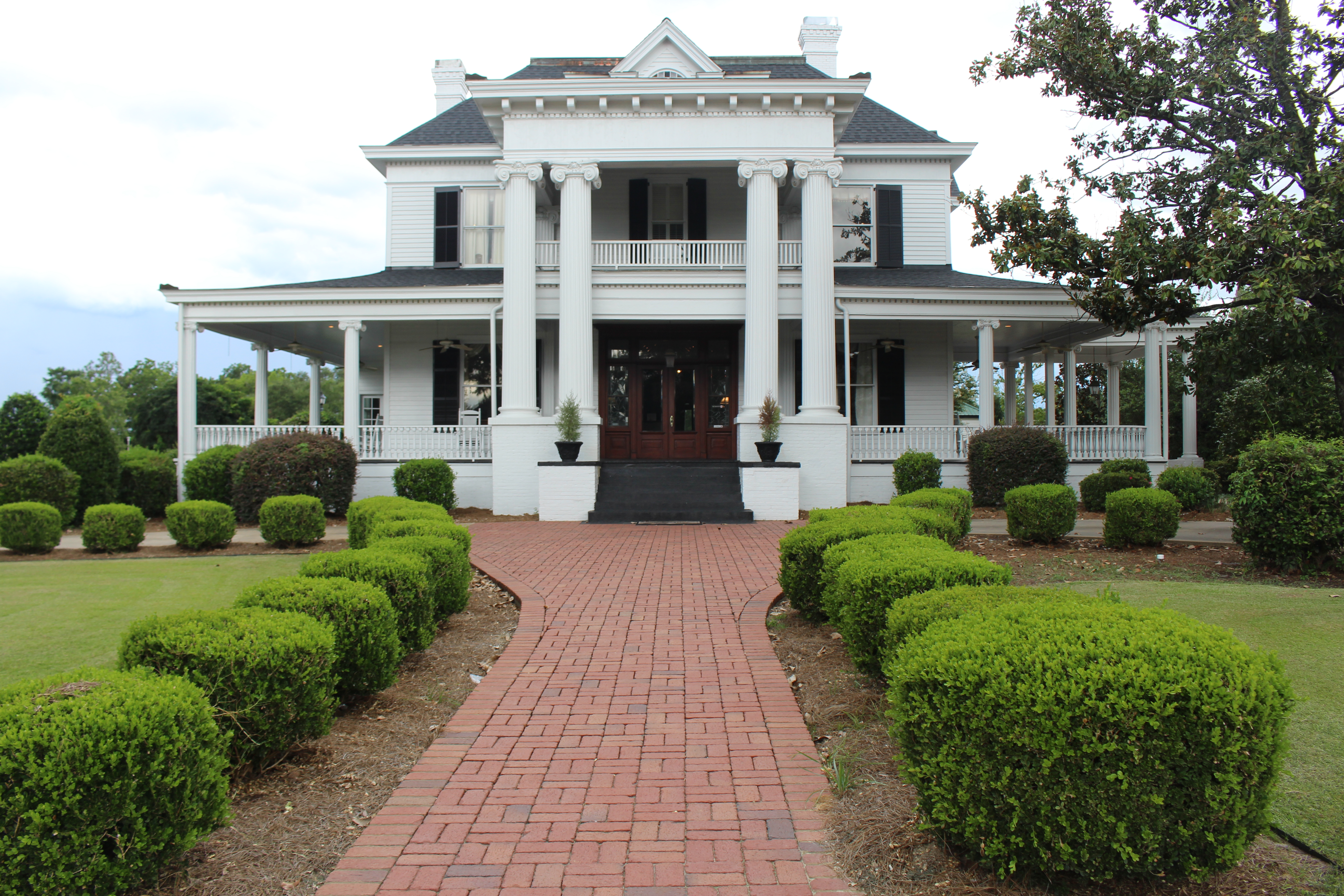 Southwest Georgia Regional Commission, Camilla, Mitchell County, Georgia